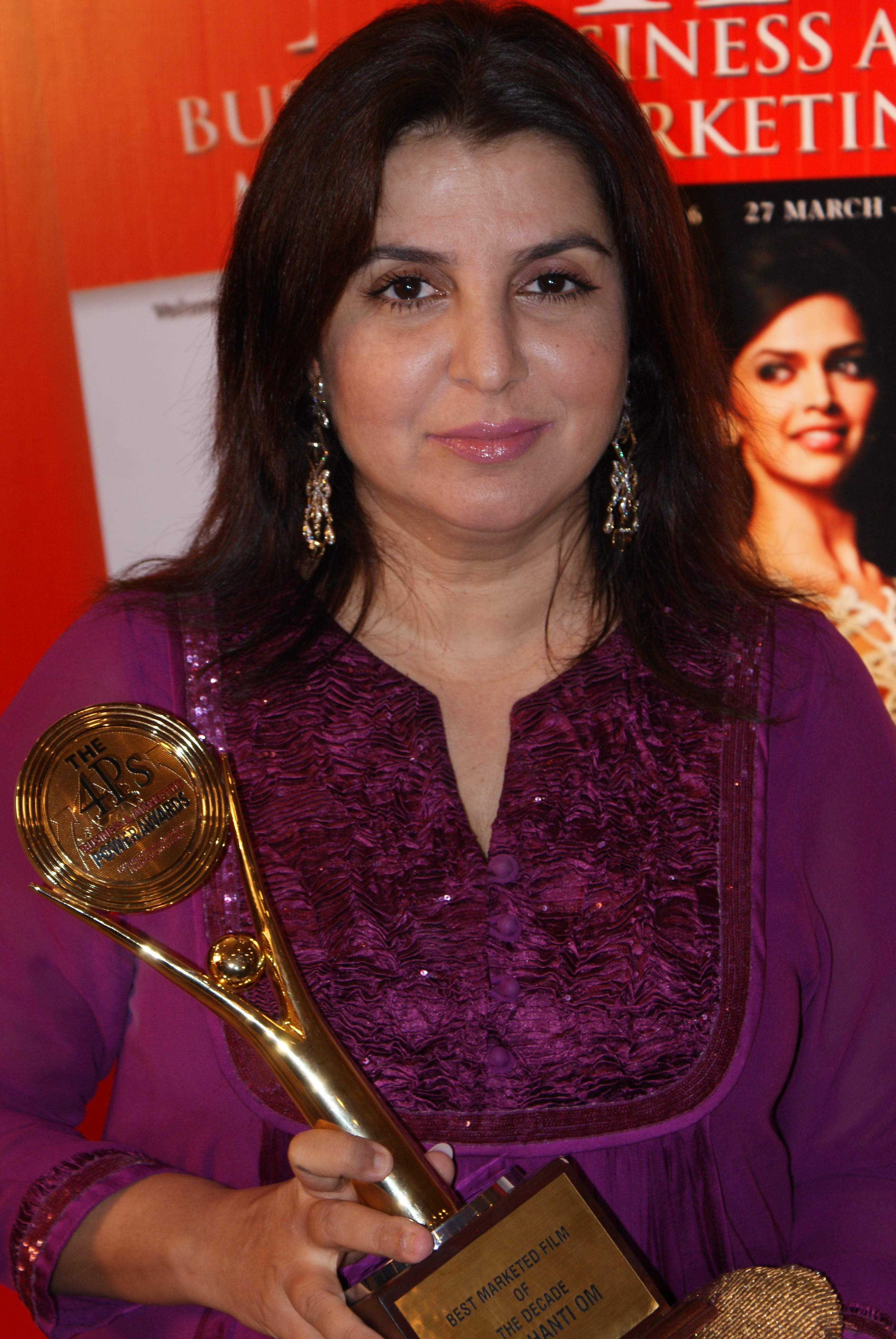 Director / Choreographer Farah Khan at the 4PS Advertising & Marketing Award, where she won the award for Best Marketed Film of the Year for Om Shanti Om.